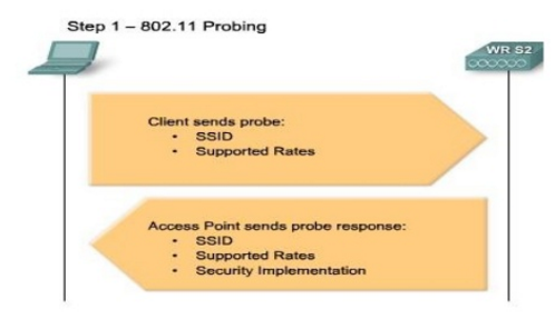 Зураг 1.2